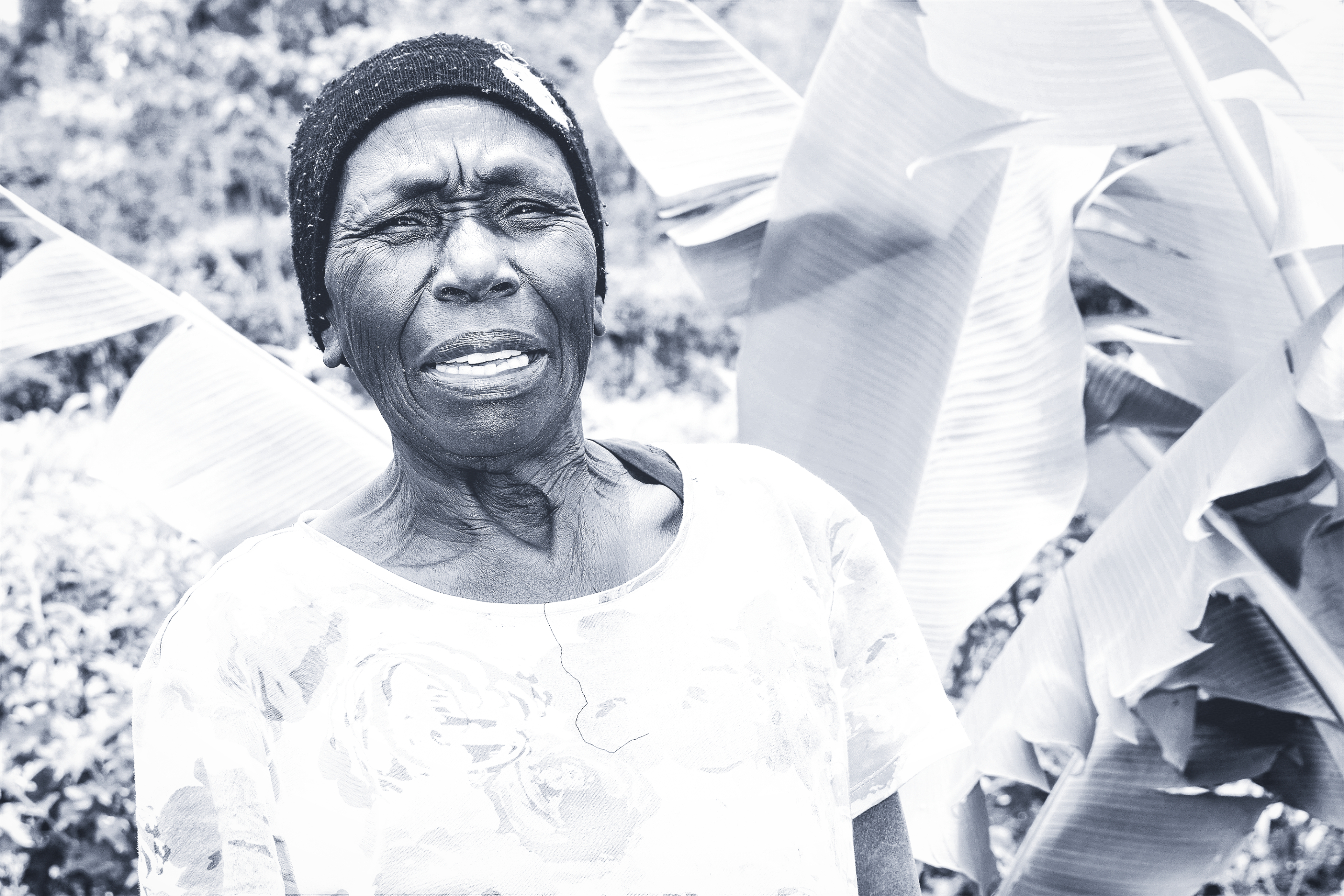 A widow of the late Chief among the Abagusii people, still strong and beautiful.